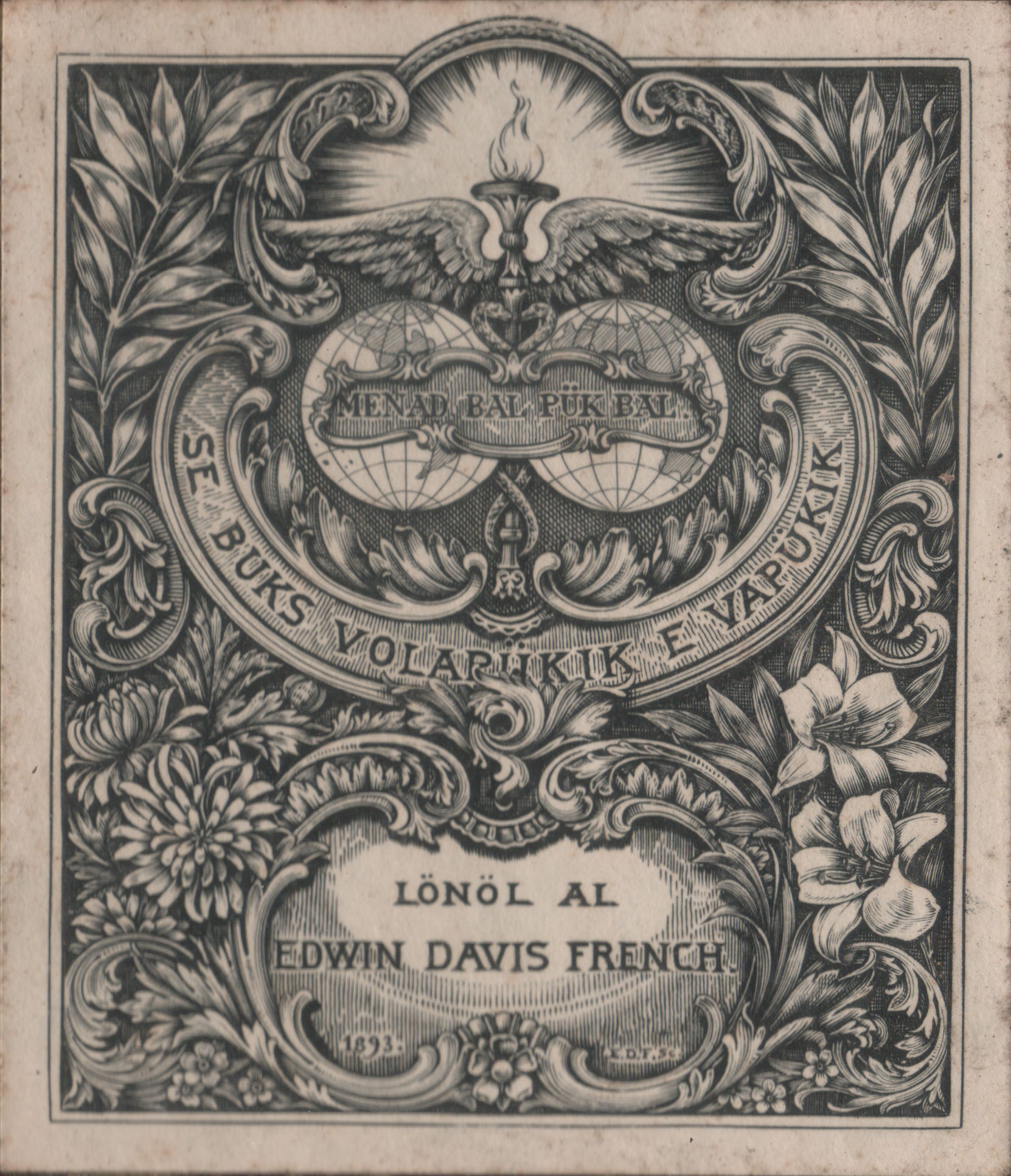 The inscription, in Original 1880's Volapük, reads: Menad bal pük bal. Se buks volapükik e vapükik Lönöl al Edwin Davis French 1893 Roughly translated into English this reads: One mankind, one language. Out of books on Volapük and international language belonging to Edwin Davis French, 1893